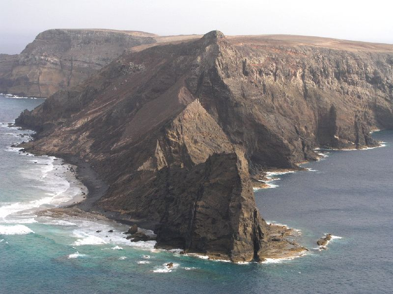 Ilhéu de Baixo or da Cal seen from Ponta da Calheta, in Porto Santo